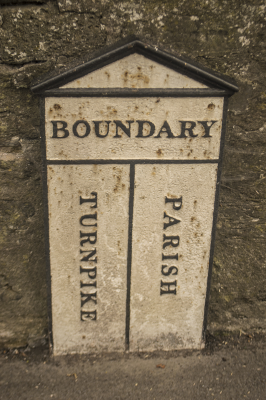 Sign marking boundary between Parish and Turnpike Trust responsibility in Christchurch Road East, Frome, Somerset, before 1888; across road, south-west of Plumbers Barton